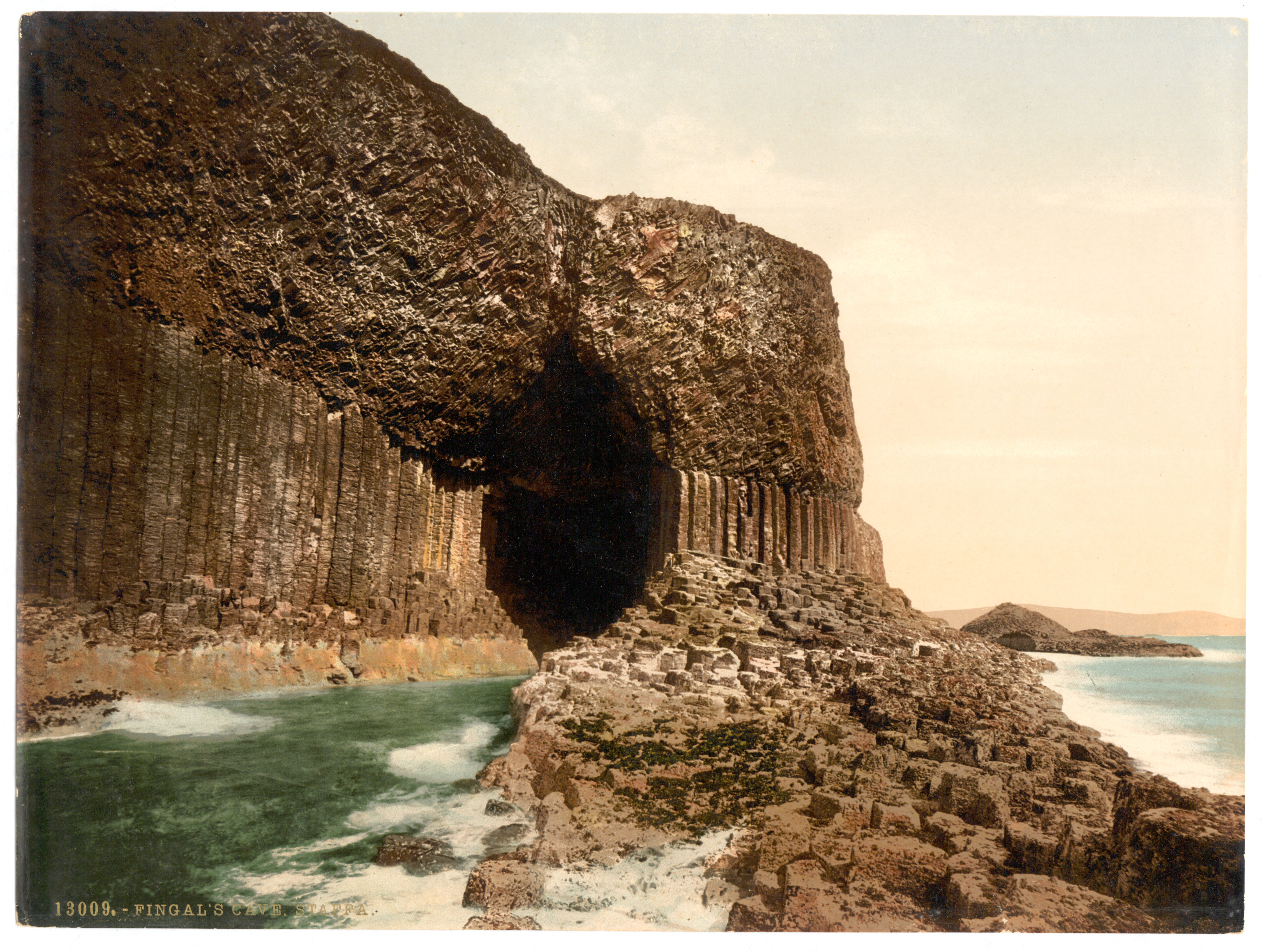 Fingal's Cave, Staffa, Scotland. This image belongs to the Category:Photochrom pictures in their original state. This is an unprocessed image. Its purpose is to show the properties of a photochrom print. Please do not modify this image. Modifications will be reverted.